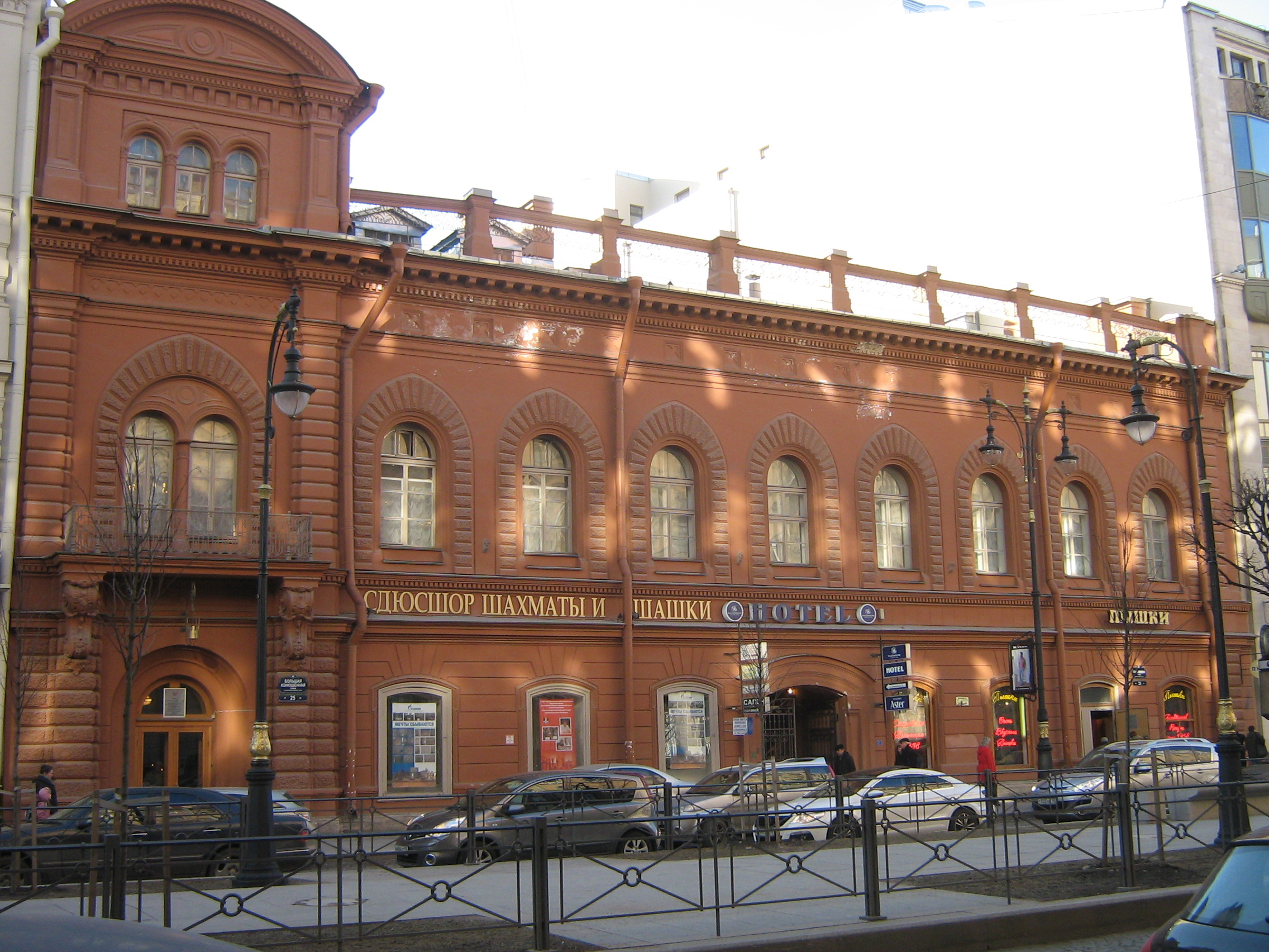 Saint Petersburg (Russia), Bolshaya Konyushennaya Street.